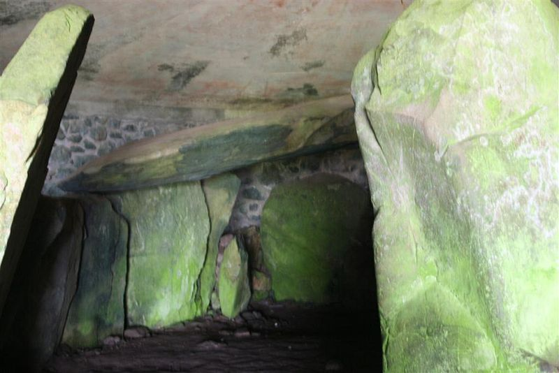 Barclodiad y Gawres burial chamber - interior.